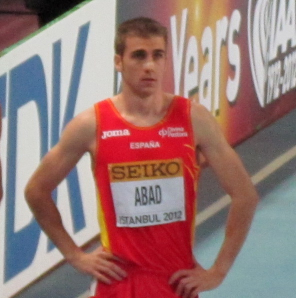 The 2012 IAAF World Indoor Championships in Athletics was the 14th edition of the global-level indoor track and field competition and was held between March 9–11, 2012 at the Ataköy Athletics Arena in Istanbul, Turkey. Francisco Javier Abad